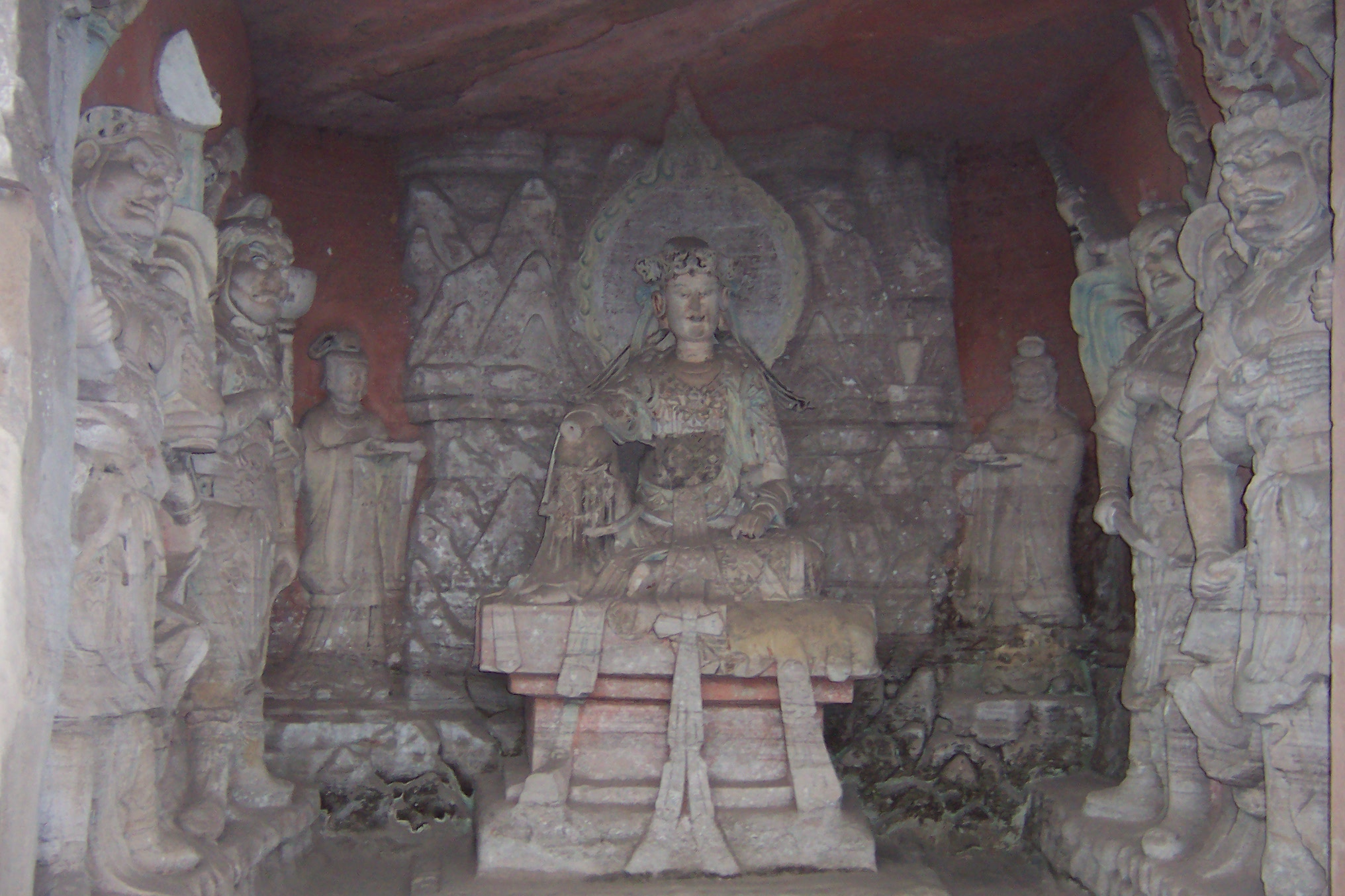 Dazu rock carvings, Bei Shan, Guan Yin seated at "royal ease"